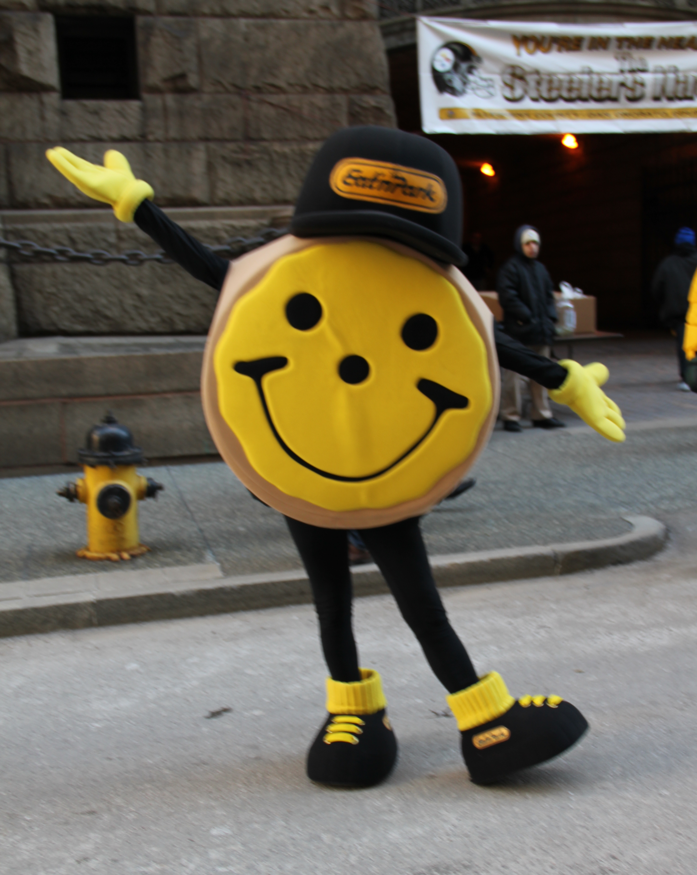 Smiley, the Eat'n Park mascot (an anthropomorphic sugar cookie, appears at a rally for the Pittsburgh Steelers outside the Allegheny County Courthouse before Super Bowl XLV. Here, Smiley appears in Steelers colors.